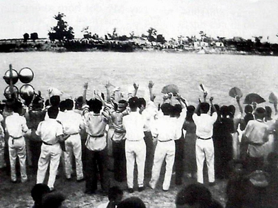 Art Performance at the north bank of Ben Hai river during Vietnam War. Description copied from source: Văn công ở bờ Bắc biểu diễn văn nghệ cho đồng bào bờ Nam. Một hình ảnh xúc động 50 năm trước ở đôi bờ Bến Hải - Ảnh tư liệu